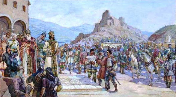 Henryk Hrynievski, King Demetre II's farewell to his people (an illustration to Ilia Chavchavadze's poem "Demtre the Devoted")